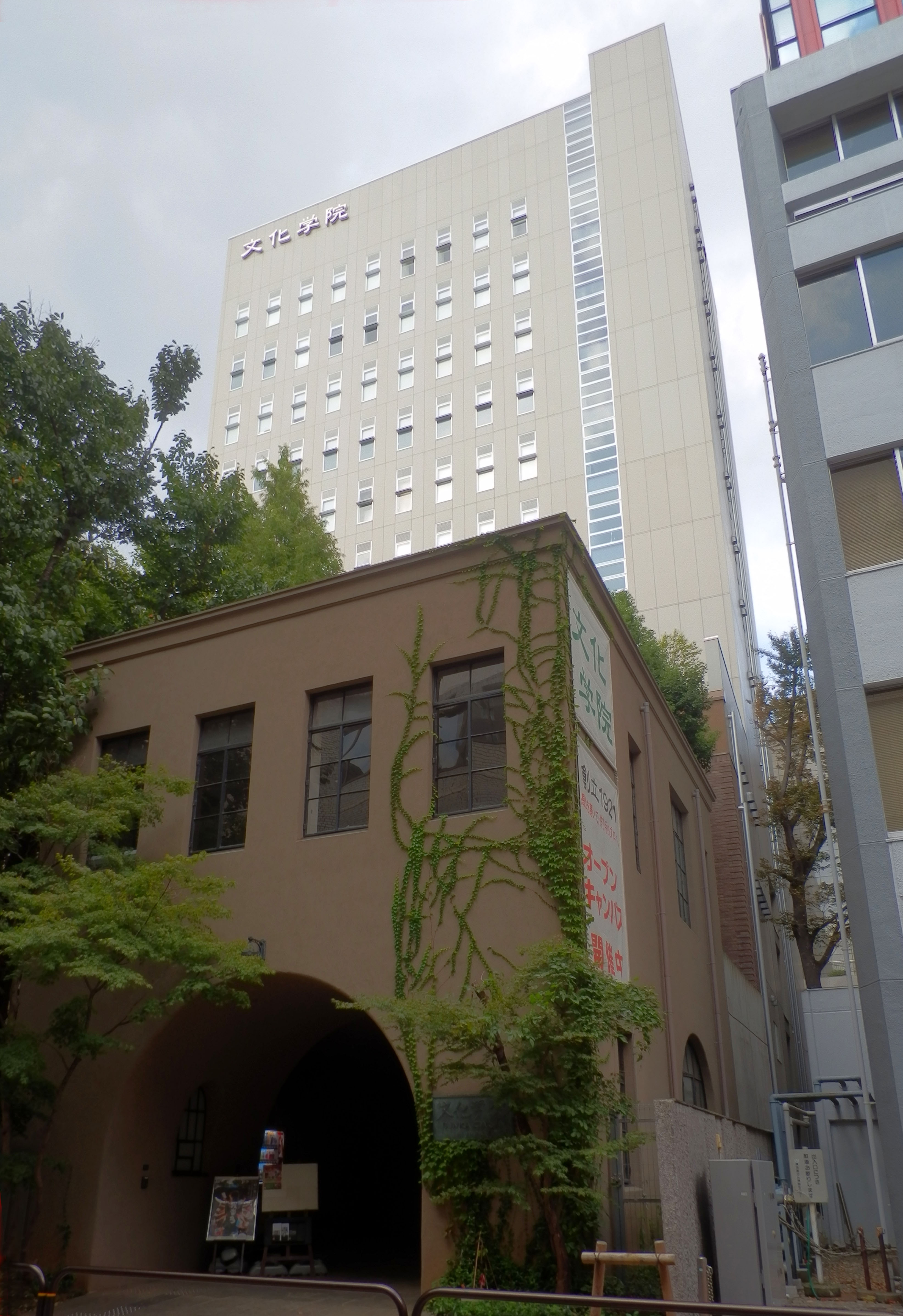 Bunka Gakuin (Vocational school in Tokyo, Japan)